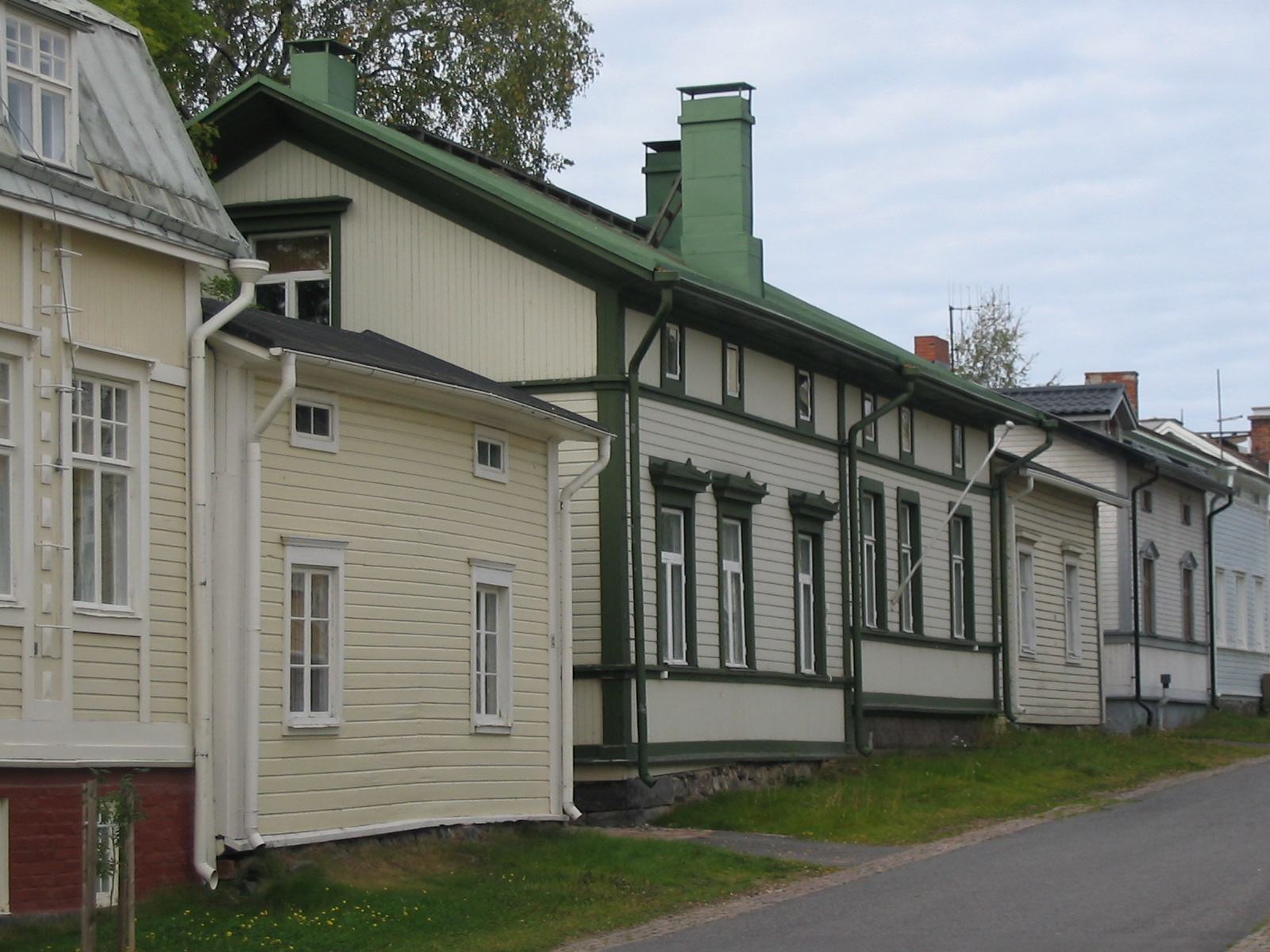 Wooden houses in Kuusiluoto, Oulu, Finland